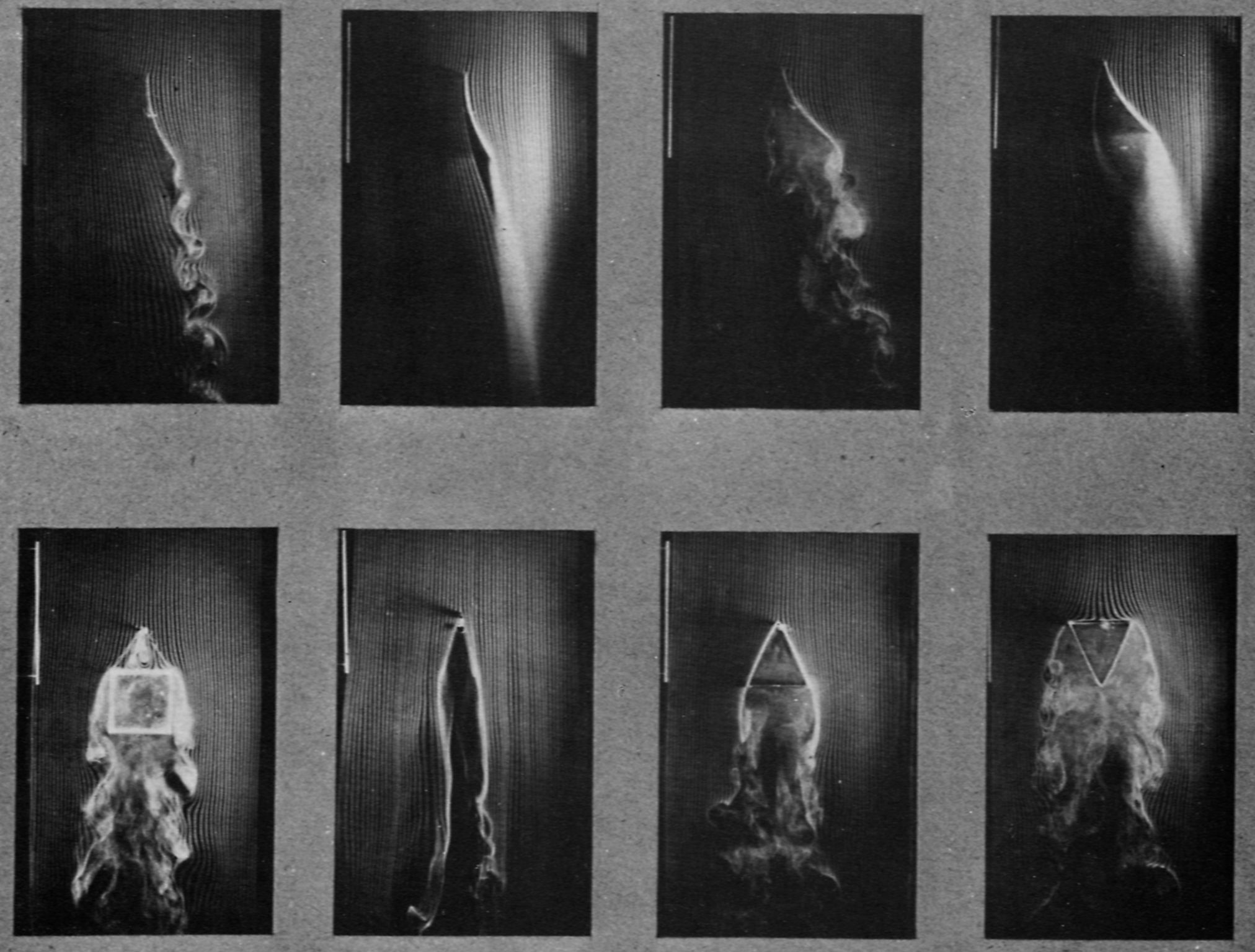 Air movement in a collision with objects of different shapes